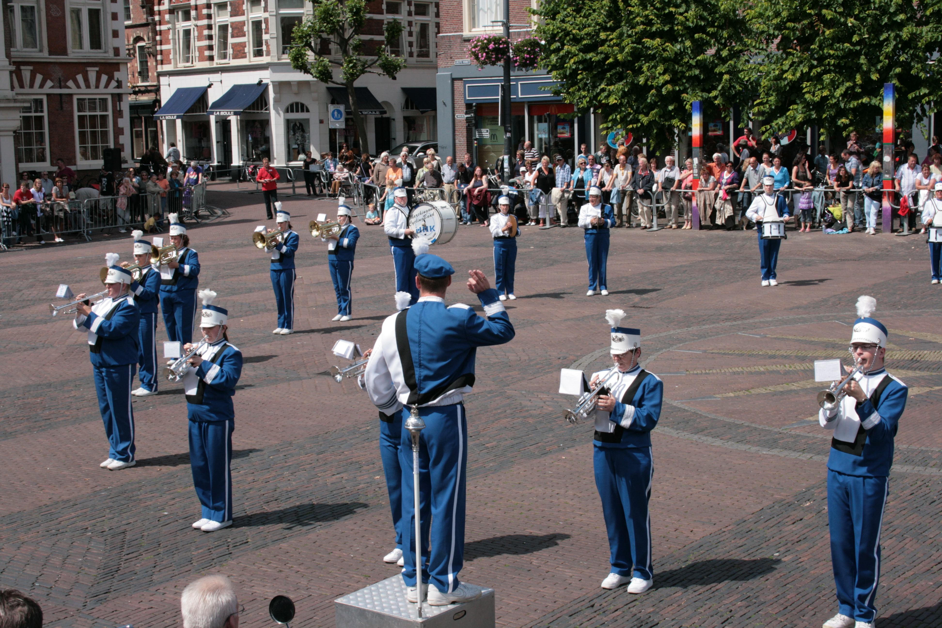 The MaC-Band HHK during a tattoo